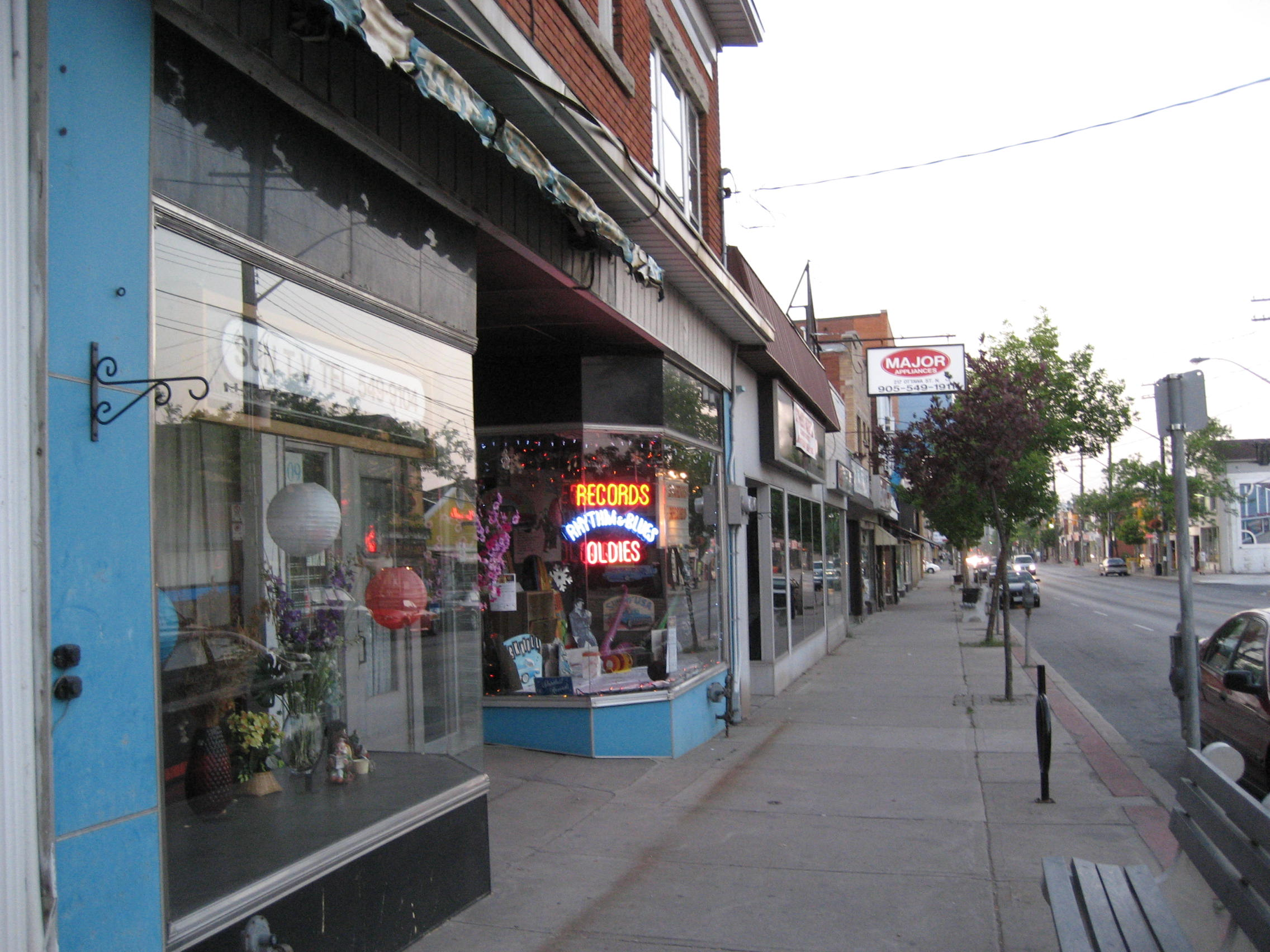 Ottawa Street North, shopping district, Hamilton, Ontario